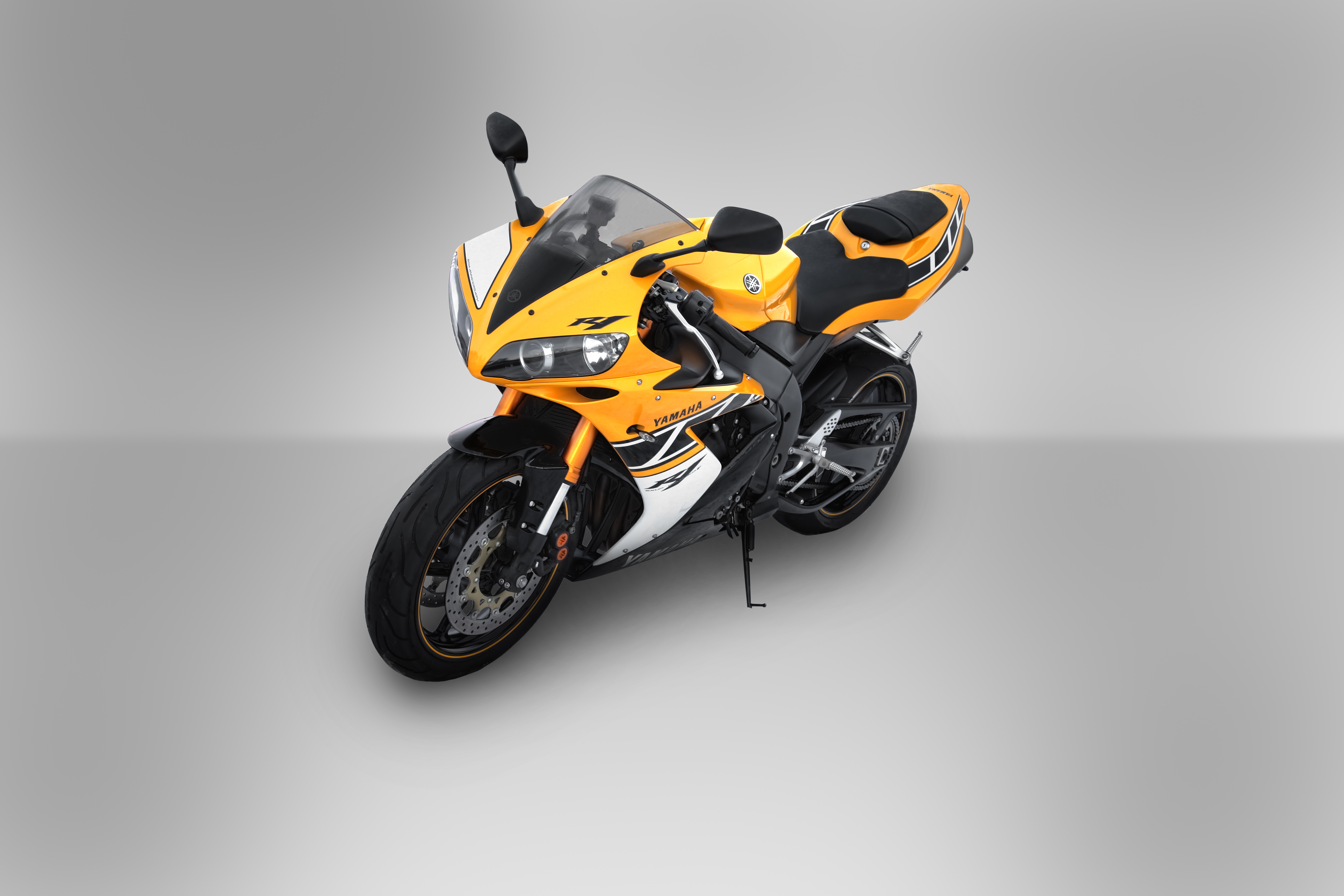 Yamaha YZF-R1 50th Anniversary Limited Editon Thanks to the proud owner, Marc Ossmann!